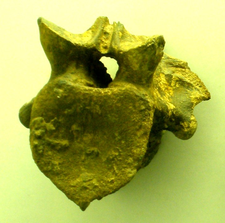 Took the photo at Museo di Storia Naturale di Milano